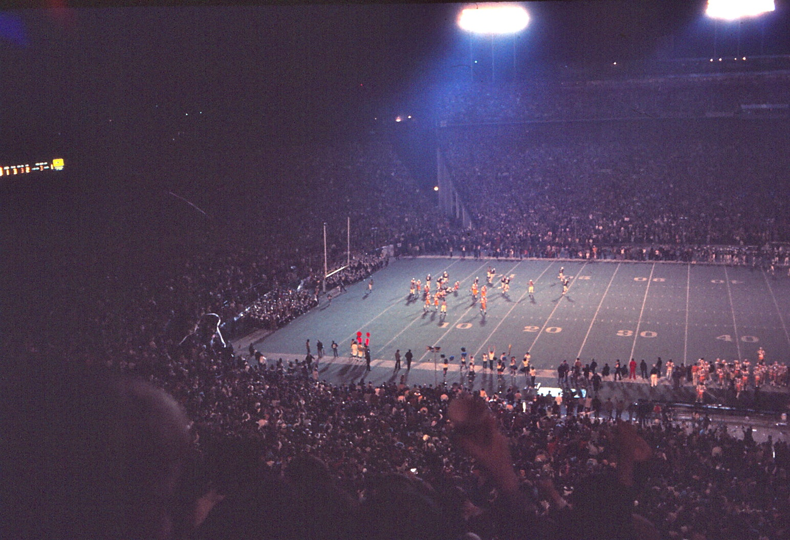 Louisiana - New Orleans - The Sugar Bowl - LSU at Tulane (If my memory serves...Tulane won...it was the first time in 25 years against LSU) - December 1973